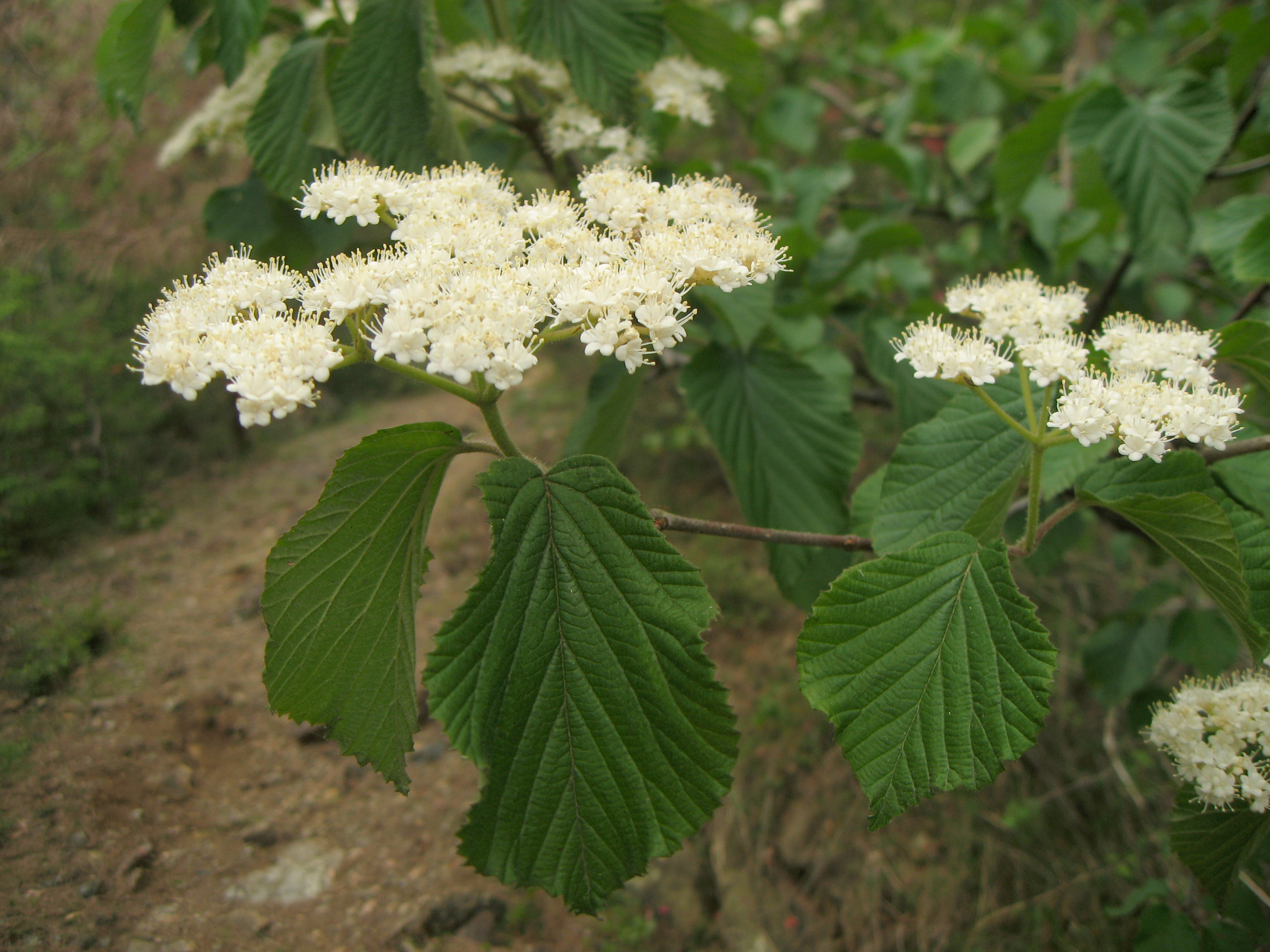 Viburnum dilatatum Date taken(YYYY-MM-DD): 2010-06-06 Mt. Asama area, Ise-Shima National Park, Ise, Mie, Japan.